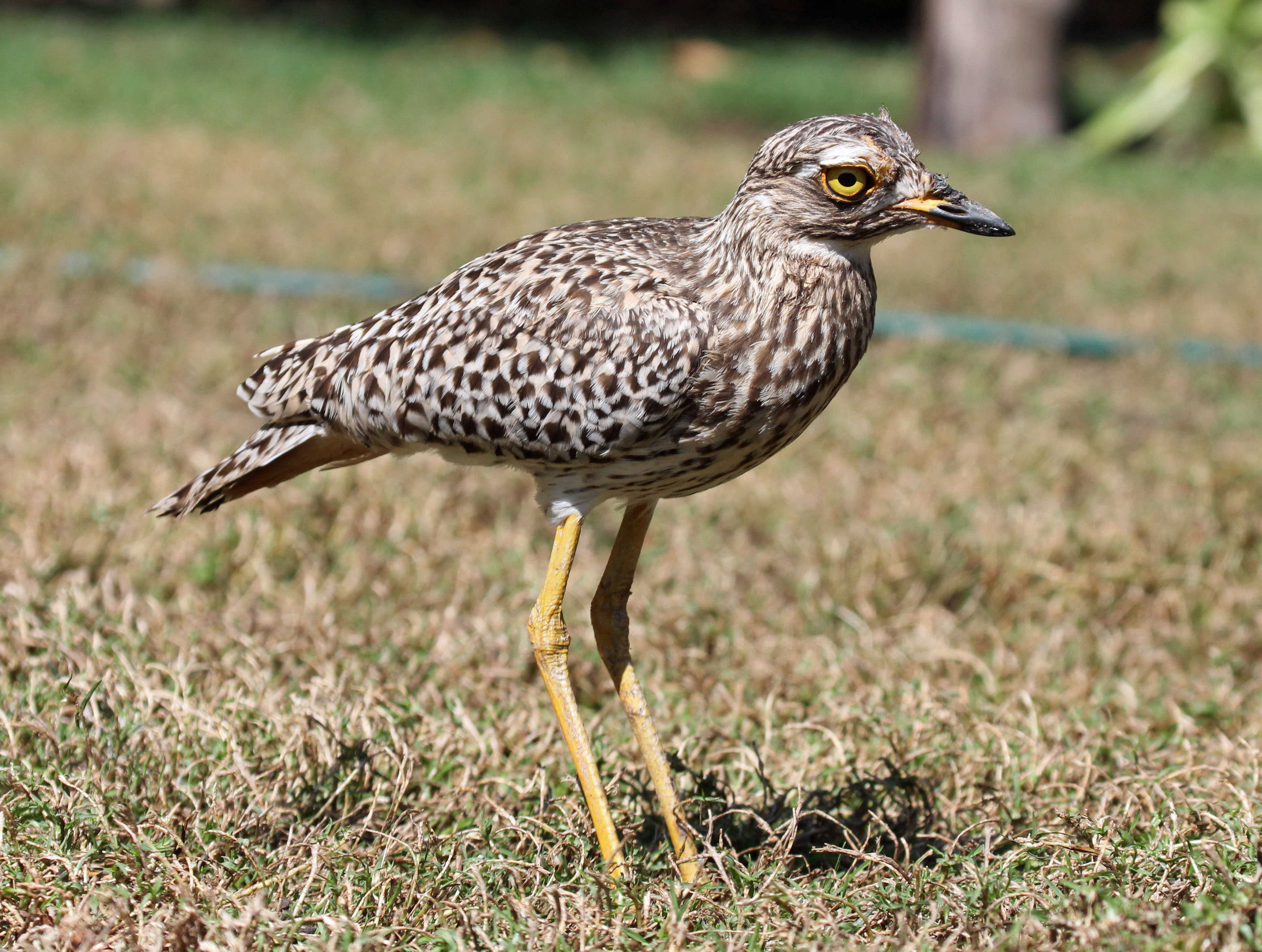 Spotted Dikkop (Burhinus capensis) at Birds of Eden aviary, South Africa